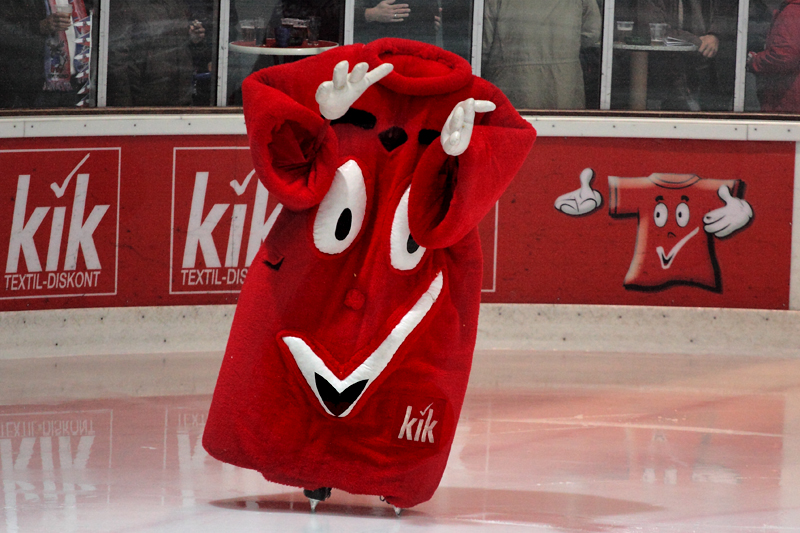 Our Main-Sponsoring - "KiK-guy"